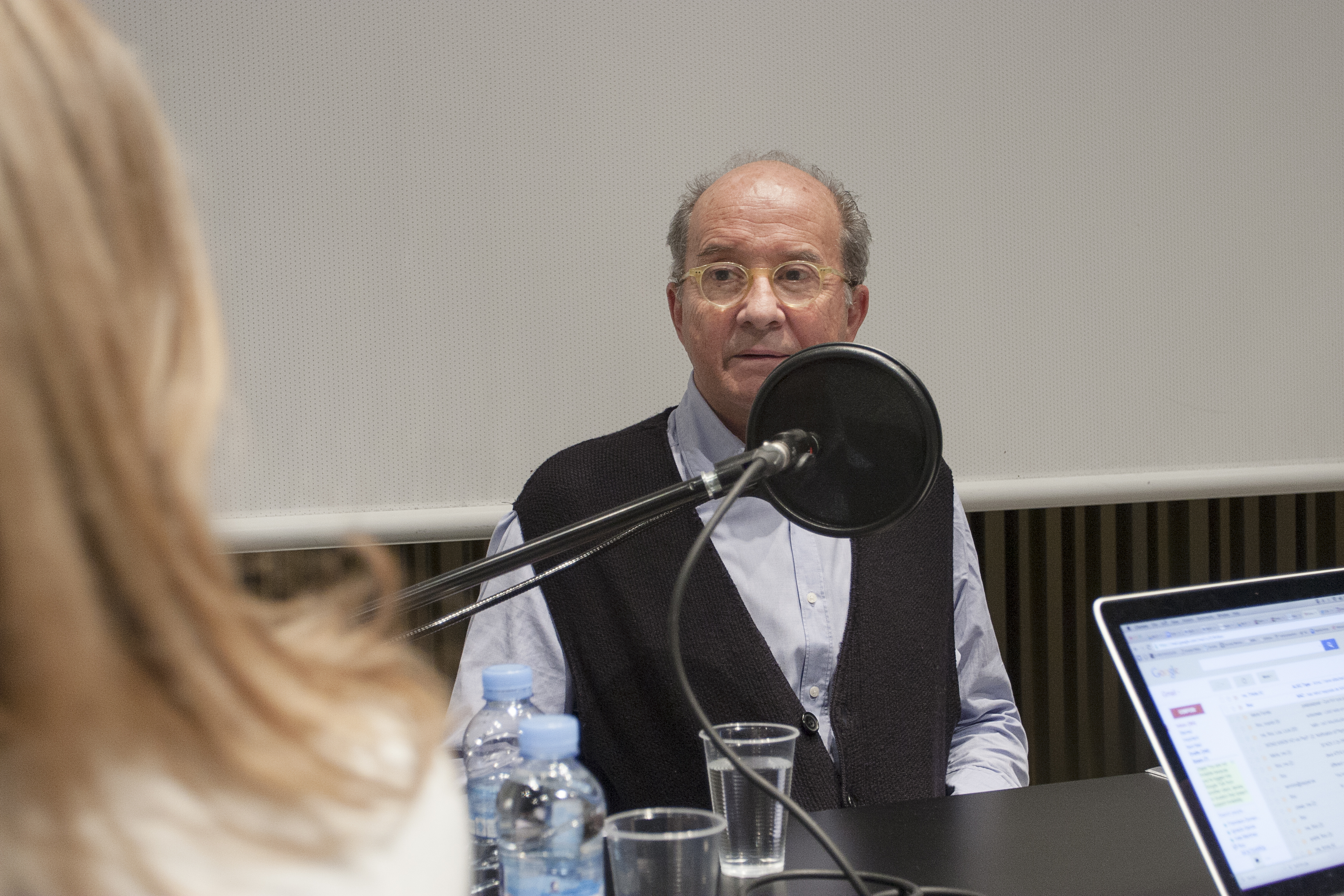 rwm.macba.cat/ca/fons_audio_tag/ Foto: Gemma Planell / MACBA, 2014